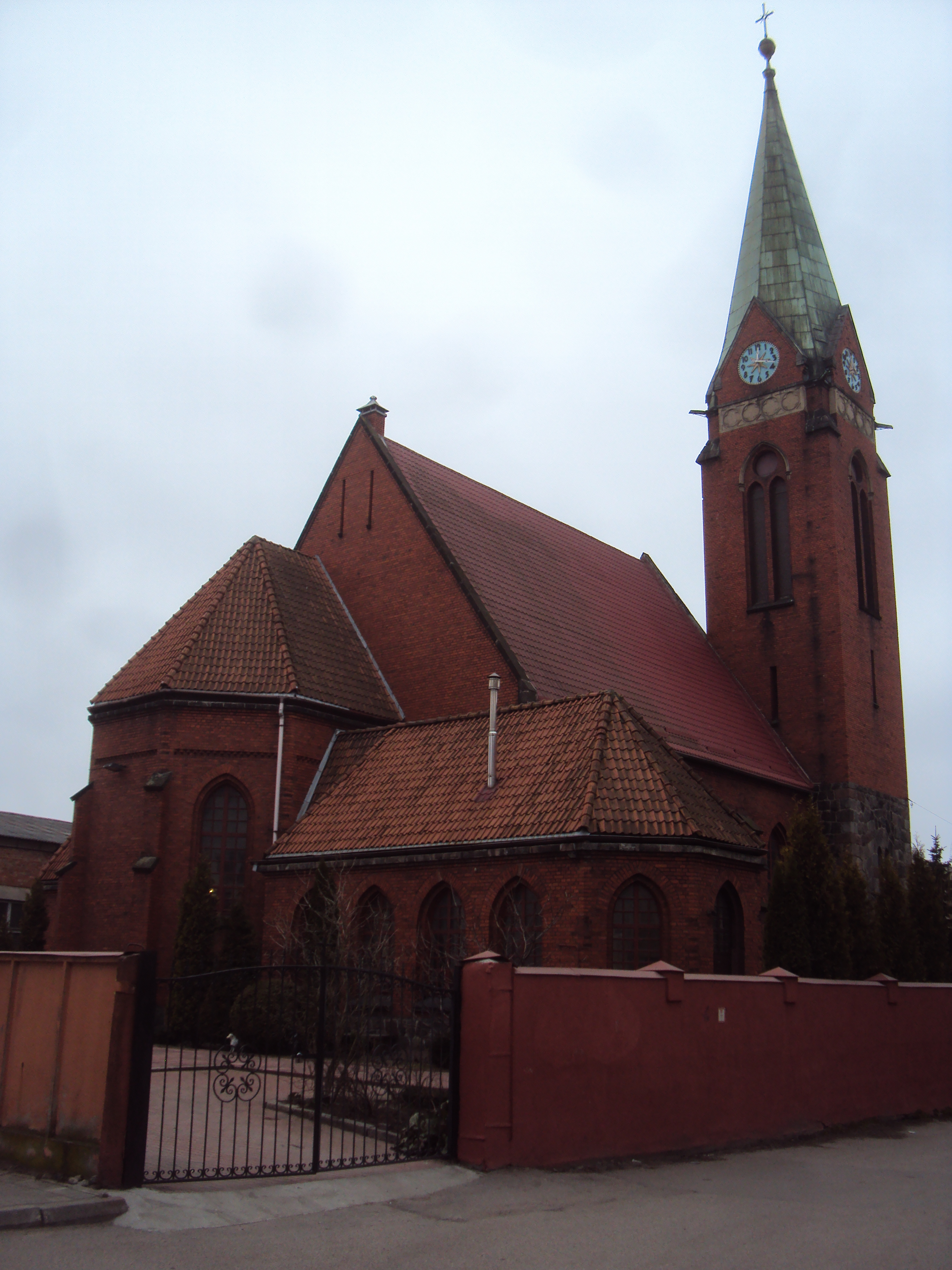 Rosenau Church